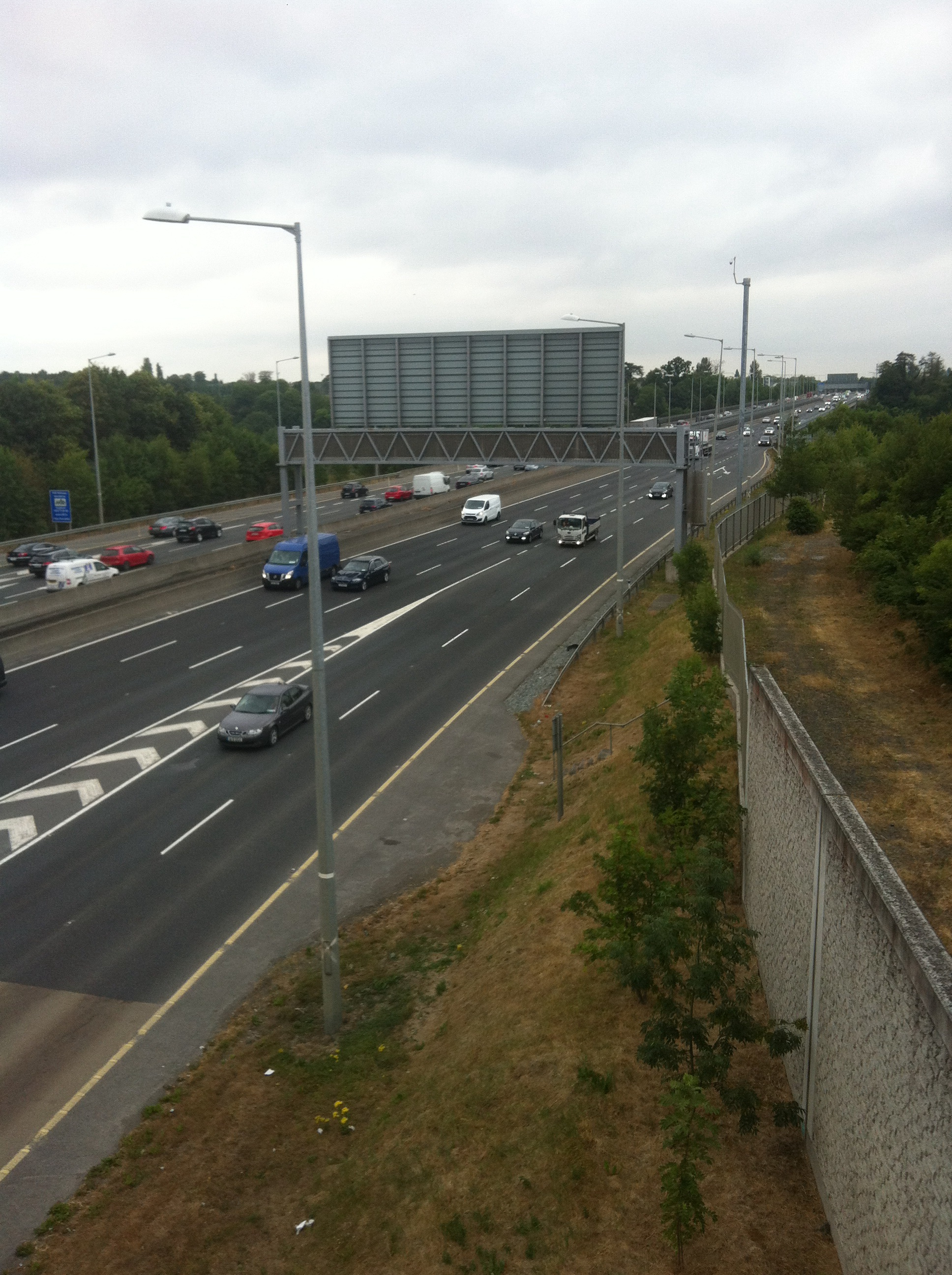 This is a photograph of the M50 and the East-Link Bridge as it passes through Palmerstown, Co. Dublin